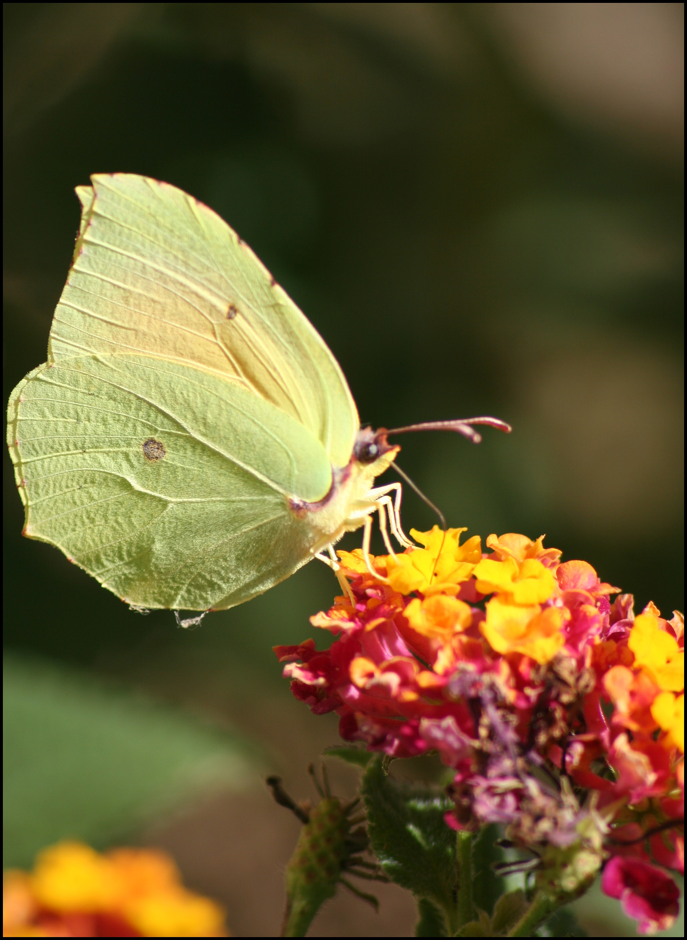 Cleopatra